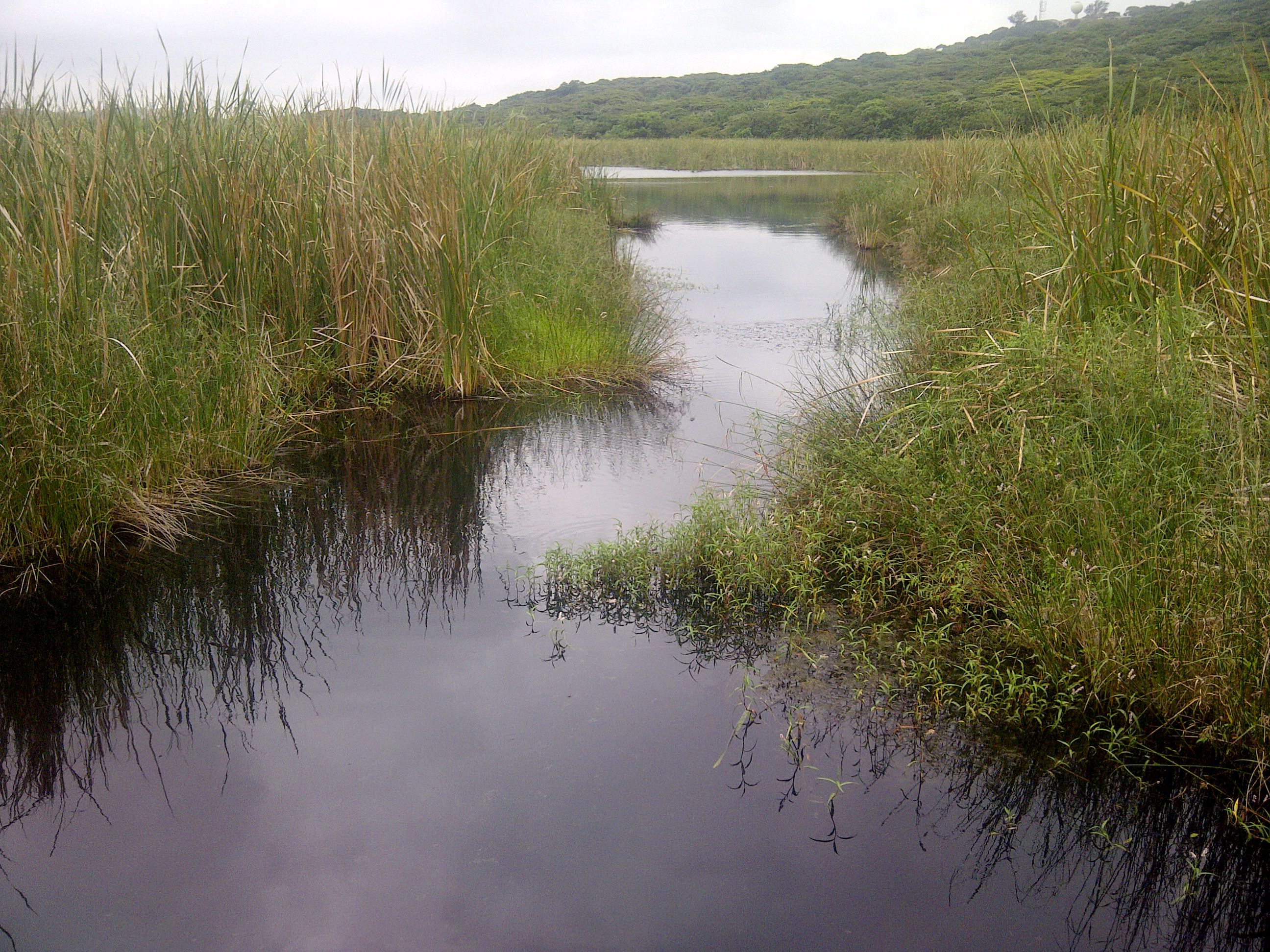 View on the pan of the Bluff Nature Reserve, Durban, Republic of South Africa. Perspective from the hide near the reserve's entrance. Dec 2013.